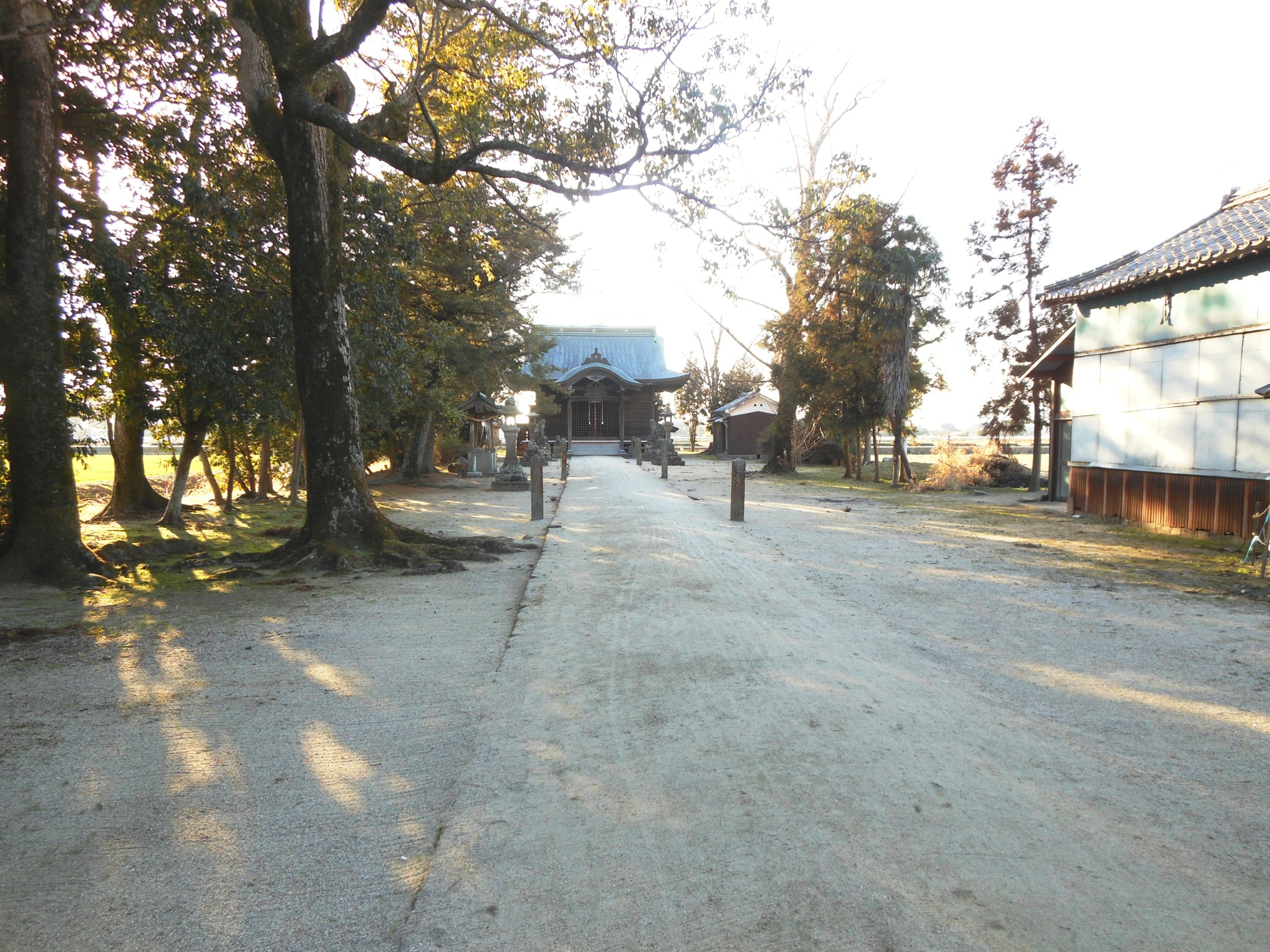 An approaching path of Yasaka Shrine, in Hasuike, Saga City. Ezaki Riichi came up with logo mark of his company Ezaki Glico here.